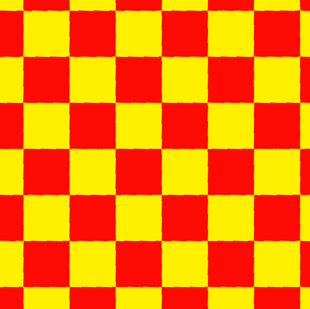 KaleidoTile, Topology and Geometry Software, Jeff Weeks Square tiling bicolored as rectified square tiling